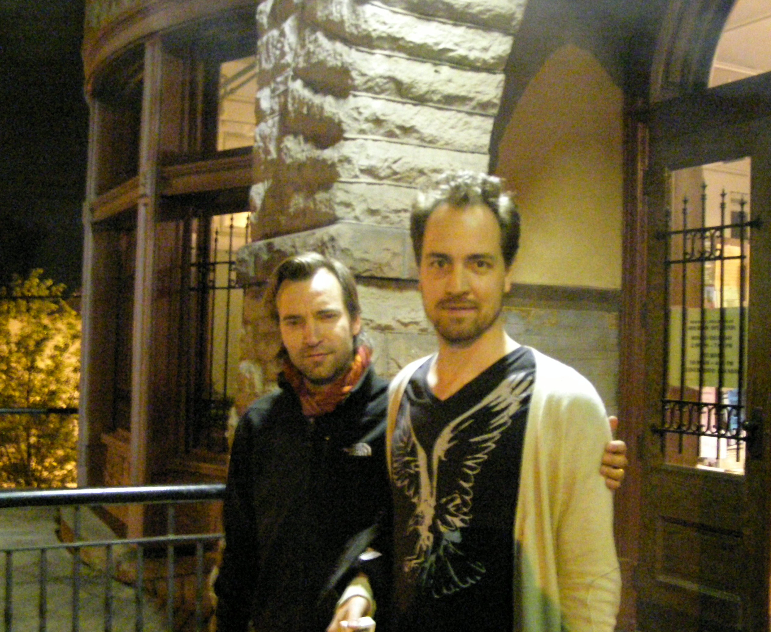 Måns Mårlind & Björn Stein in front of the Braddock Carnegie Library, 1 May 2008, during filming of Shelter(2010) with Julianne Moore.